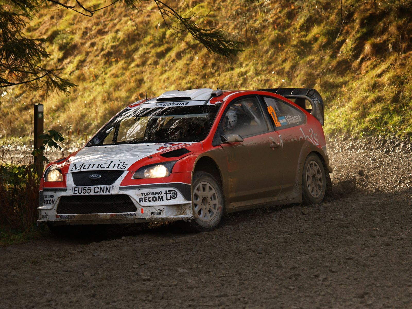 Federico Villagra driving his Ford Focus RS WRC 06 during 2007 Wales Rally GB.